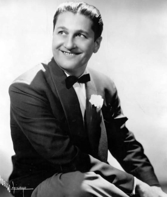 Publicity photo of musician Lawrence Welk.